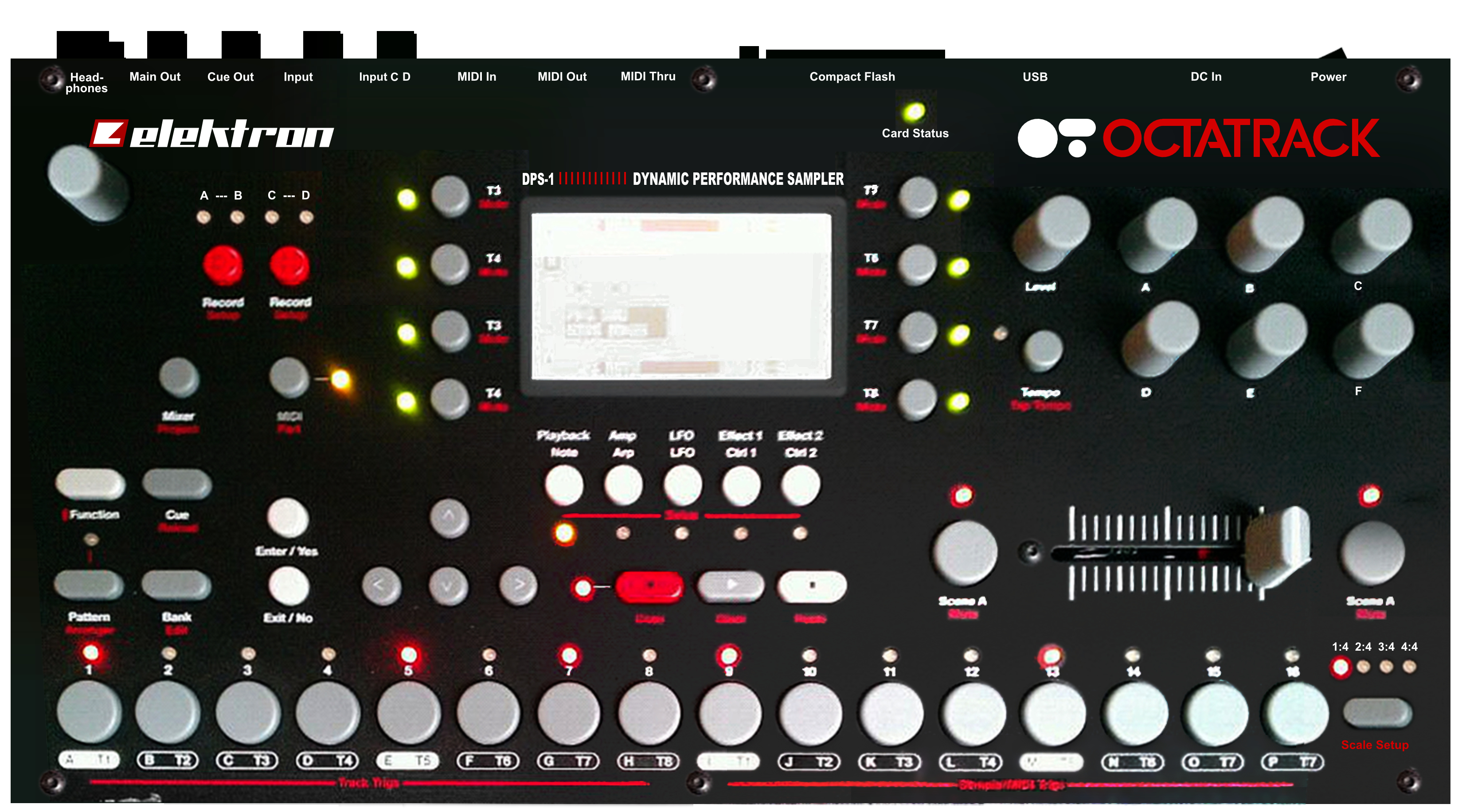 Elektron Octatrack (2011 released) [JPEG version rasterized from the SVG version, File:Elektron Octatrack.svg] Original description